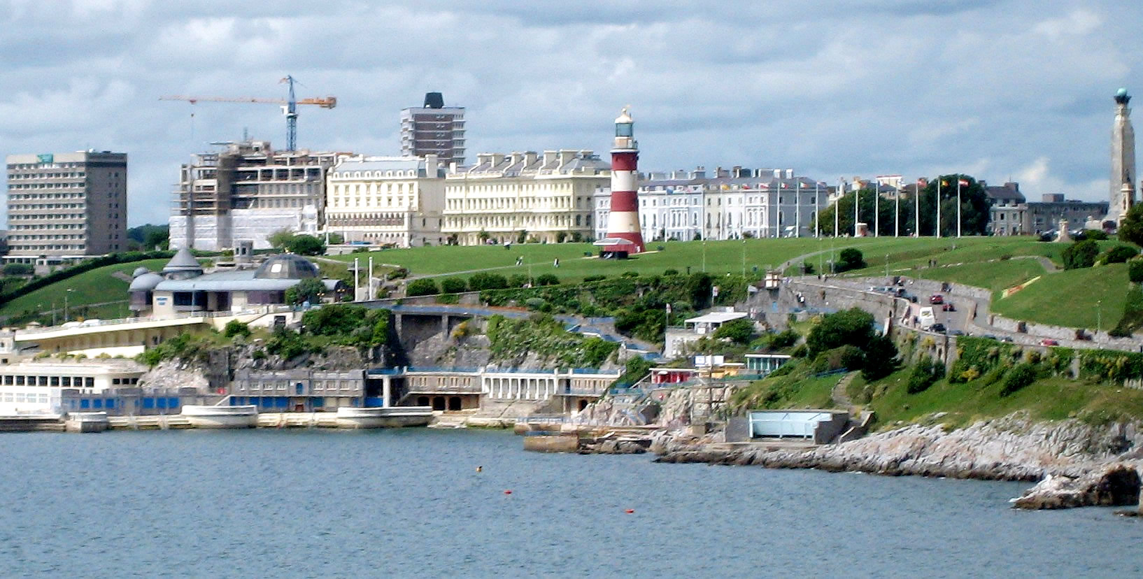 A cropped image of Plymouth Hoe